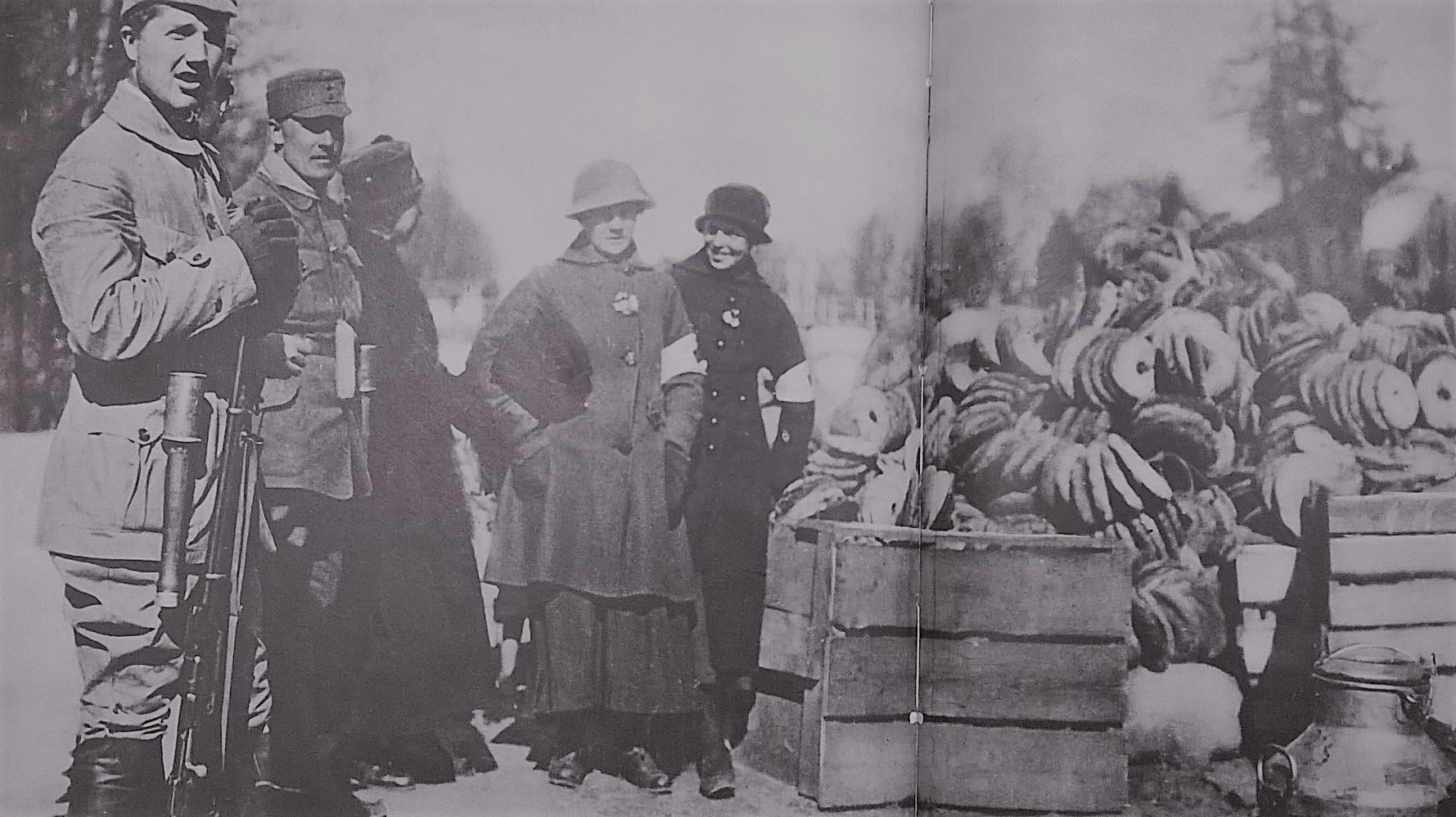 White soldiers and nurses with looted Red Guard food supplies after the 1918 Finnish Civil War Battle of Vehkajärvi in Kuhmalahti, Finland.